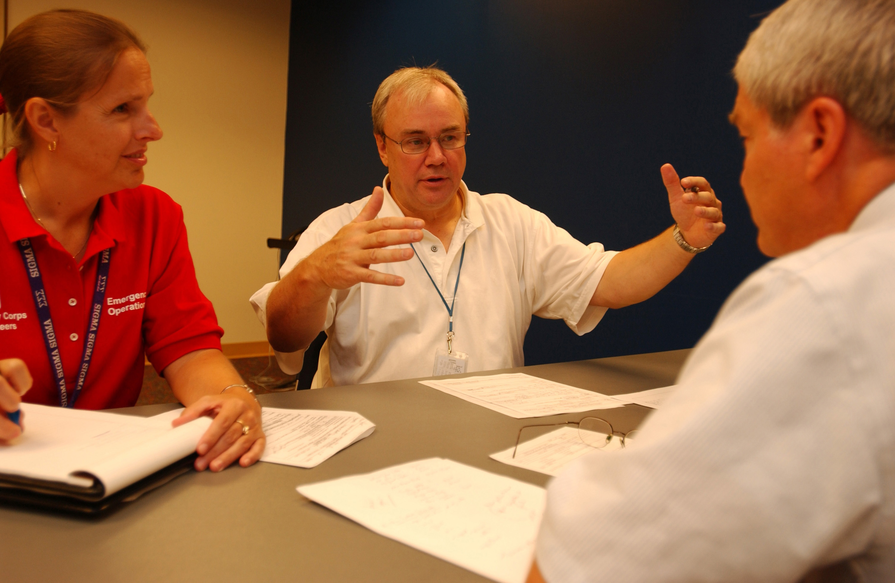 Bluffton, Ohio, September 5, 2007 -- Paul Ogiba (C) a FEMA representative and Amy Riffee (L) from Army Corp of Engineers (USACE) discuss with local university official damage to campus from flash floods that swept through the town. FEMA conducts Preliminary Damage Assessments in communities affected by disasters. JFF/FEMA